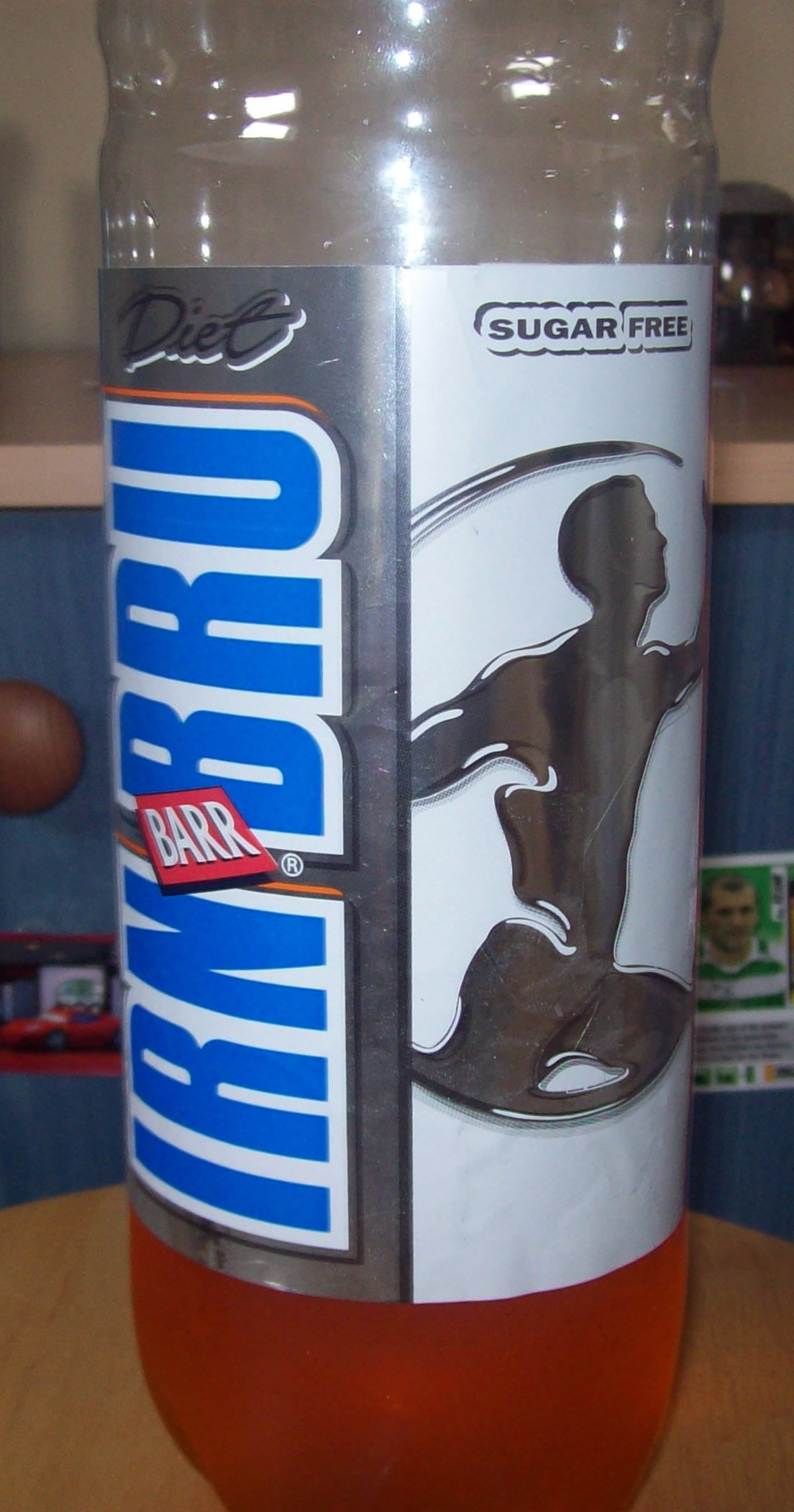 English